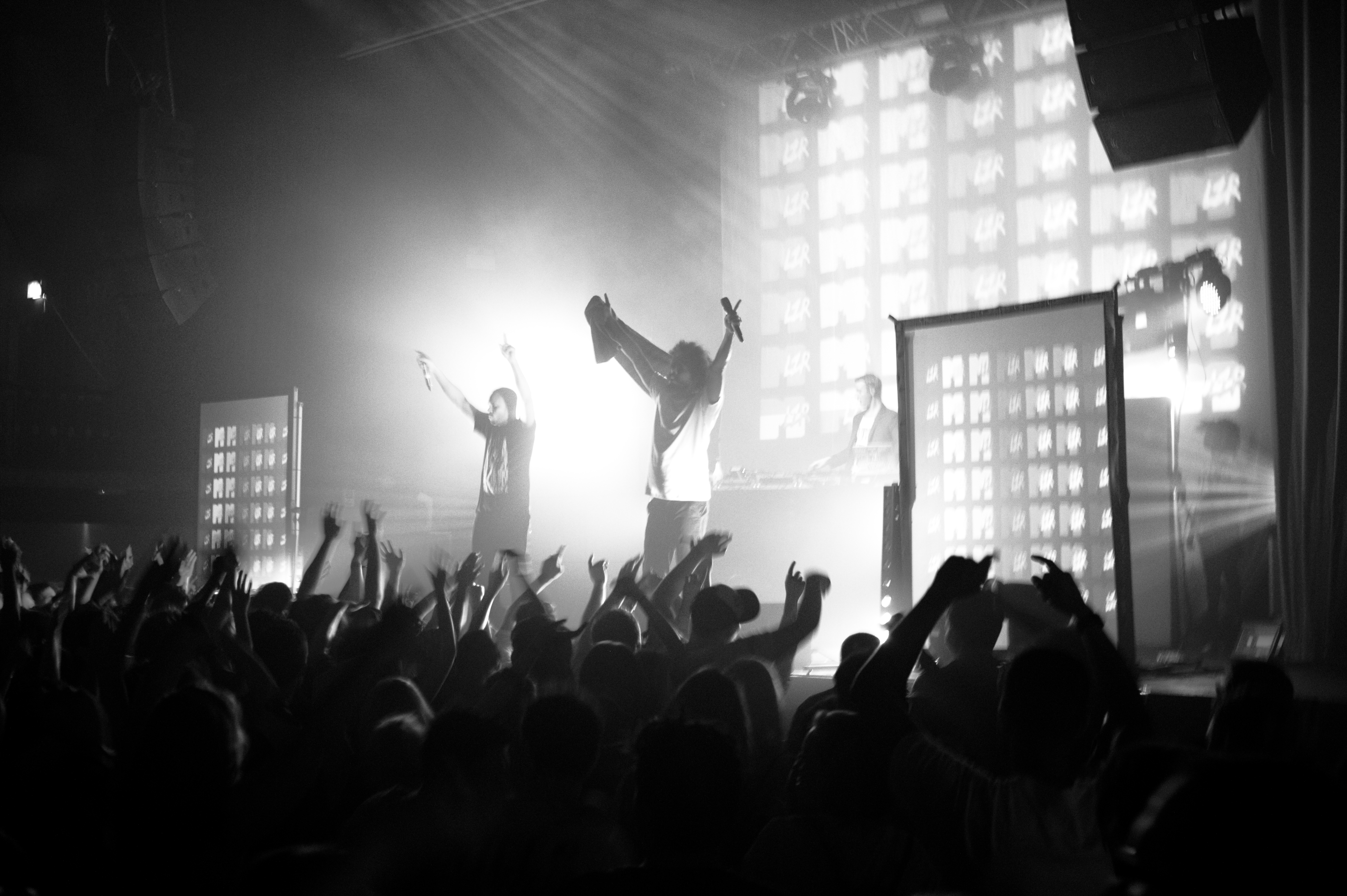 Major Lazer gig. Manchester 2012.